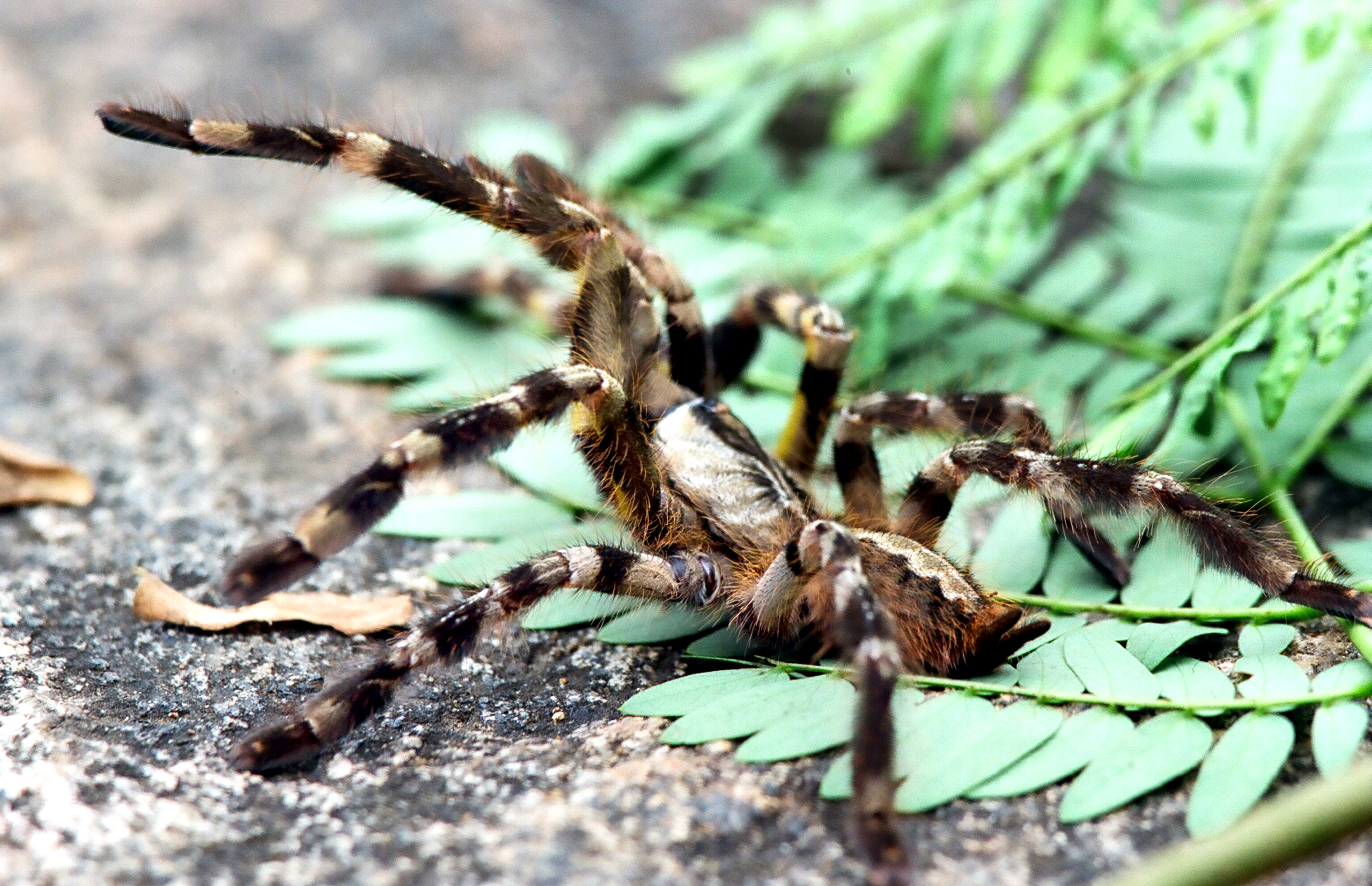 Indian Ornamental Tree Spider (Poecilotheria cf. regalis)